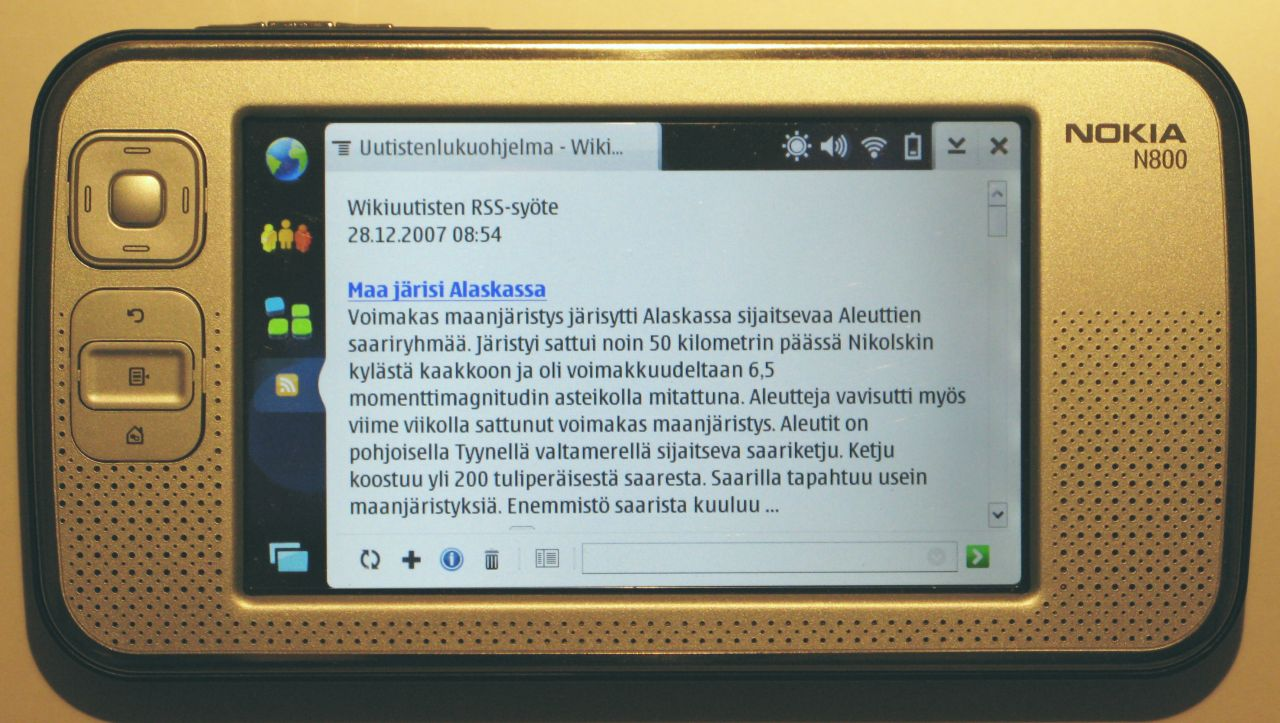 Nokia N800 Internet Tablet with open source software OS2008 and RSS feed from Wikinews licenced with Creative Commons 2.5